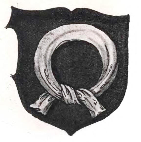 Coat of arms Nałęcz of polish noble families, published in Stemmata Polonica